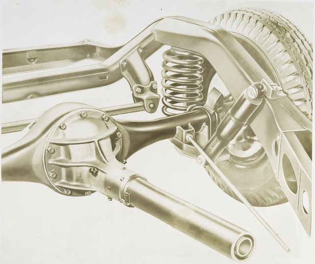 [The spring and shock absorber hook-up on the rear wheel of the 1938 Buick chassis.] Source: Photographs of General Motors and Chrysler car and truck models, 1902 - 1938. / General Motors Company. Buick 1904-1938 Photographs, Specifications. (more info) Repository: The New York Public Library. Science, Industry and Business Library. General Collection Division. See more information about this image and others at NYPL Digital Gallery. Persistent URL: Rights Info: No known copyright restrictions; may be subject to third party rights (for more information, click here) (Cropped to remove the text at the bottom of the image on Flickr)